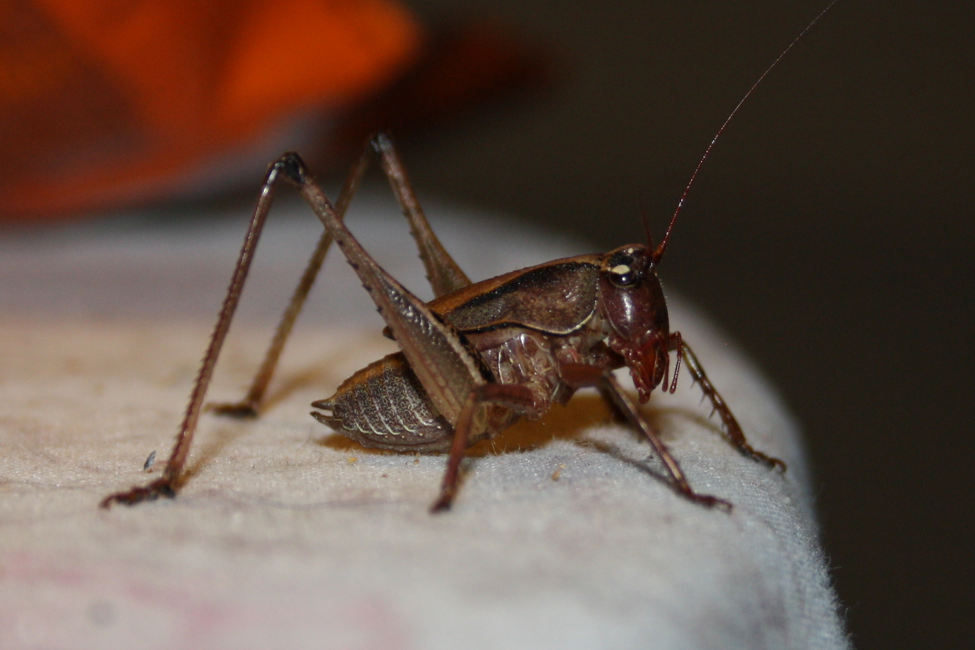 Alfred's shieldback (Alfredectes semiaeneus), a species of katydid, in George, Western Cape, South Africa